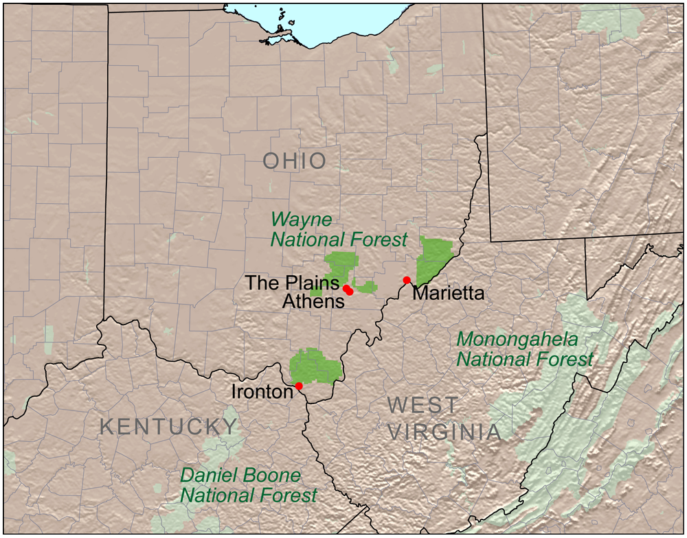 Map showing the location of Wayne National Forest in Ohio. Daniel Boone National Forest in Kentucky and Monongahela National Forest in West Virginia are also shown.